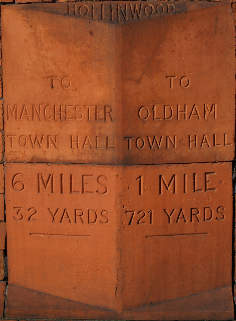 Milestone on the Smut Inn public house, on Manchester Road, in the Hollinwood area of Oldham, Greater Manchester, England.